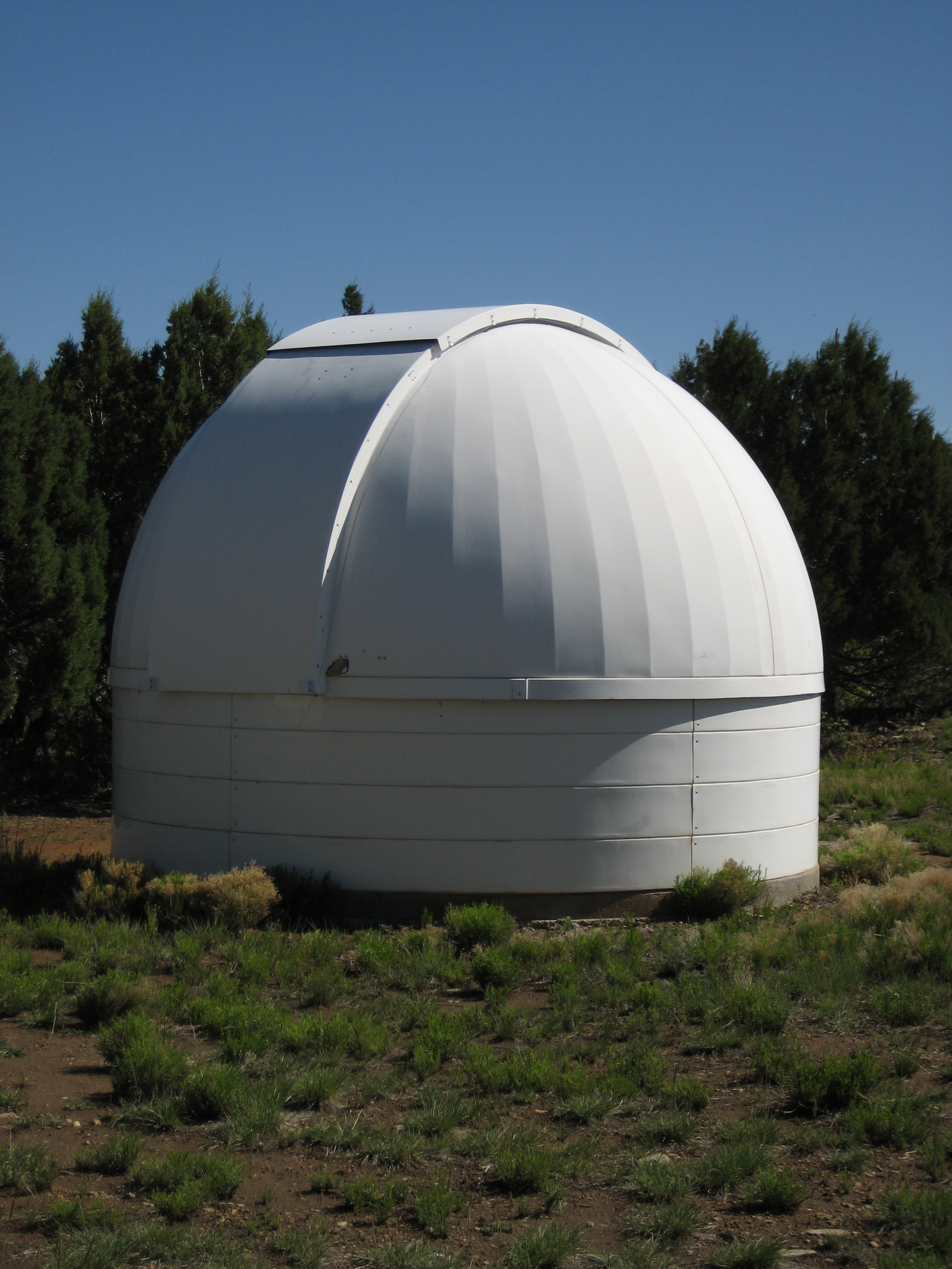 New Mexico Skies 24" Observatory, Mayhill, NM, USA